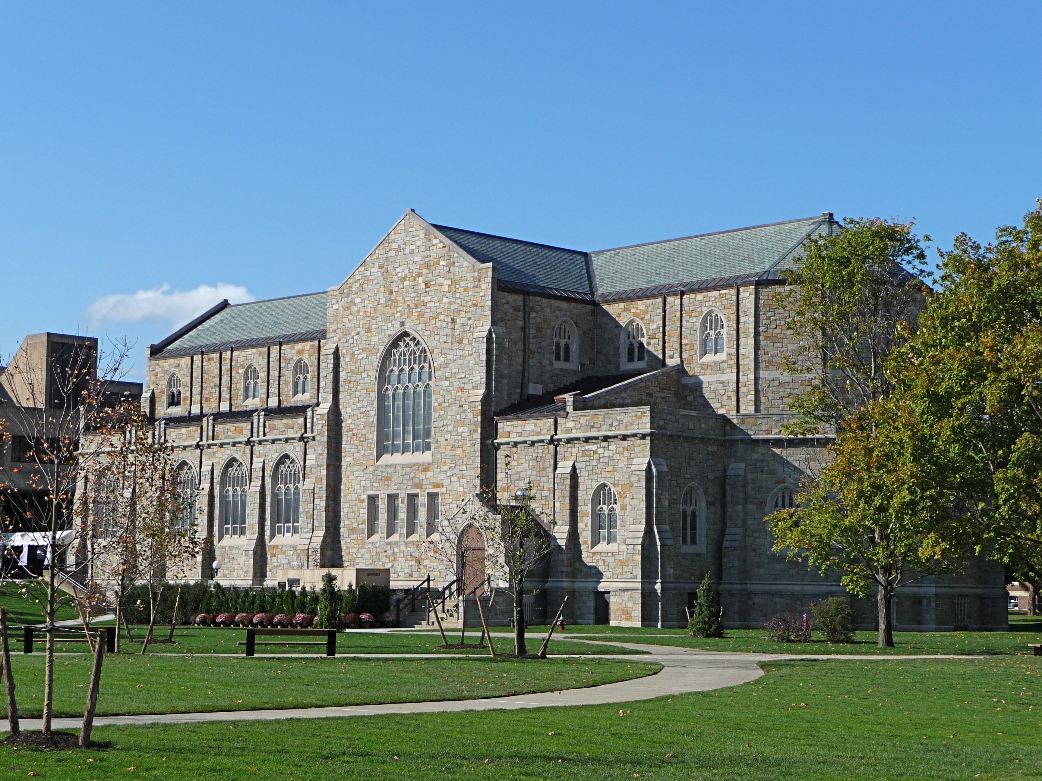 Vorhees Computing Center on the campus of Rensselaer Polytechnic Institute in Troy, New York